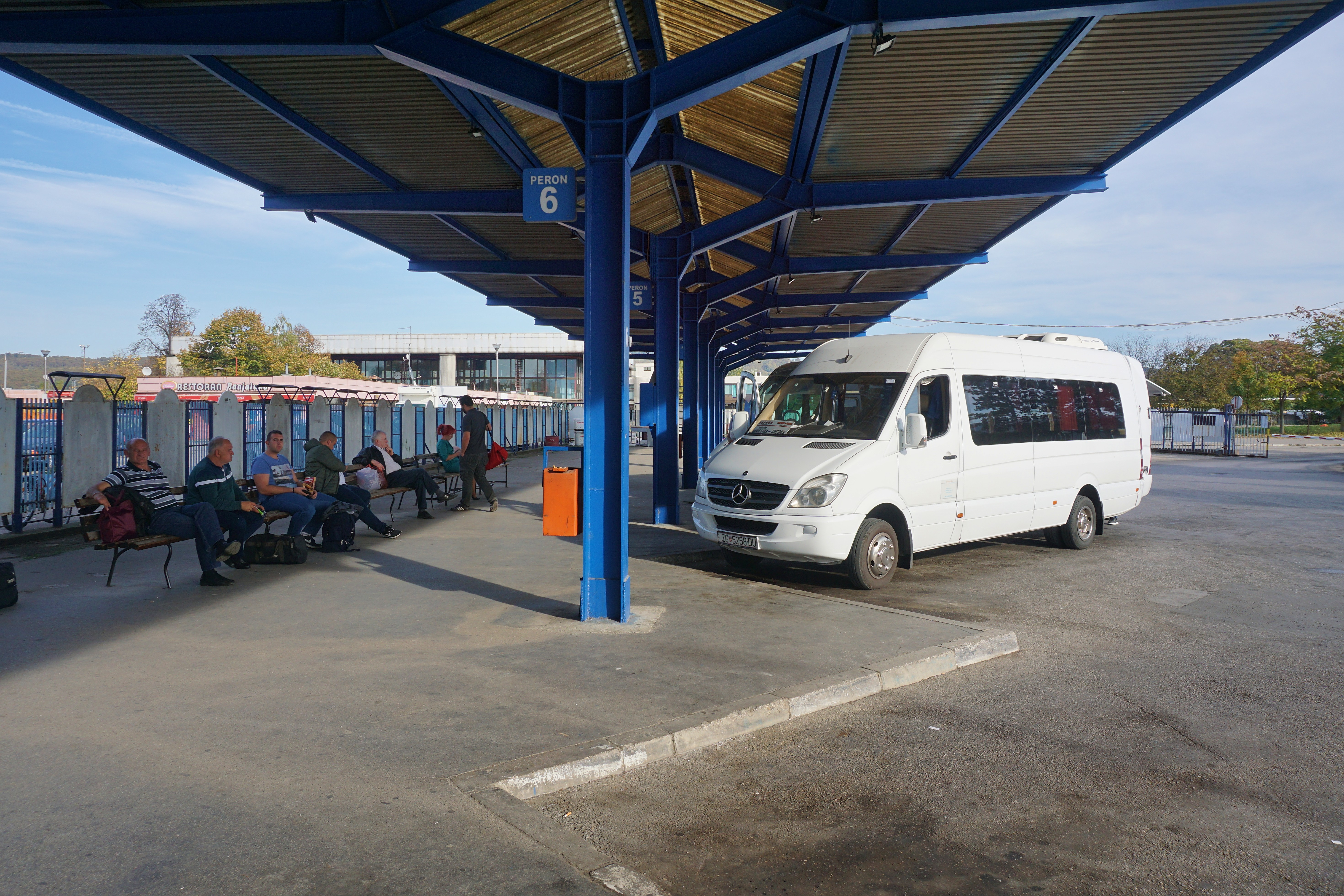 Banja Luka bus station